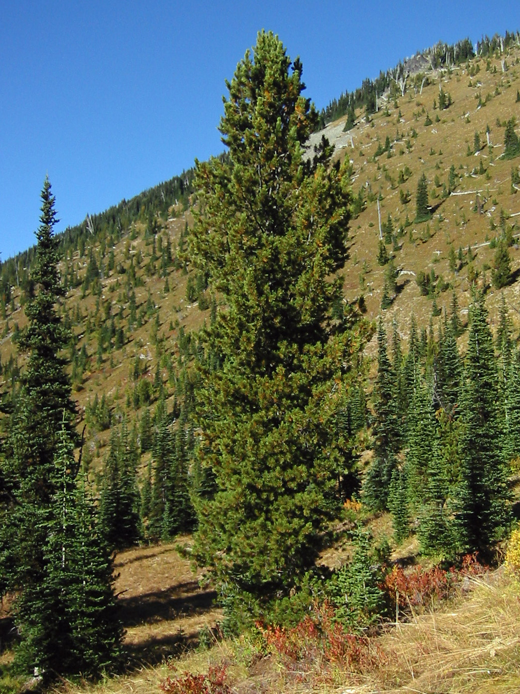 Whitebark Pine near Crystal Lake.